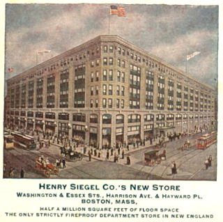 Detail of postcard depicting Henry Siegel Co. department store, Boston, USA